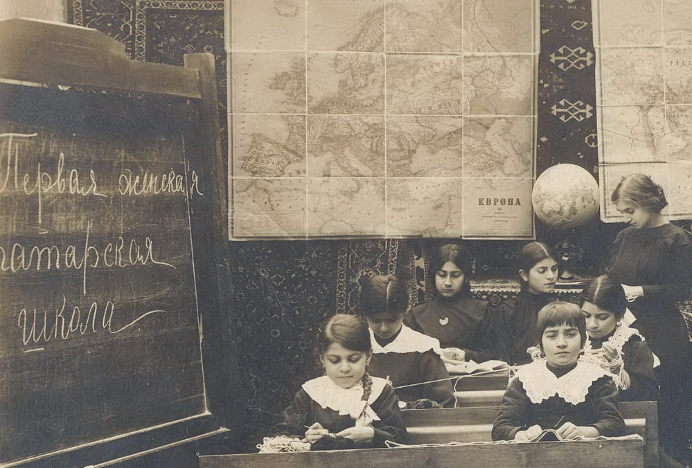 Schoolchildren in Baku azeri girls school